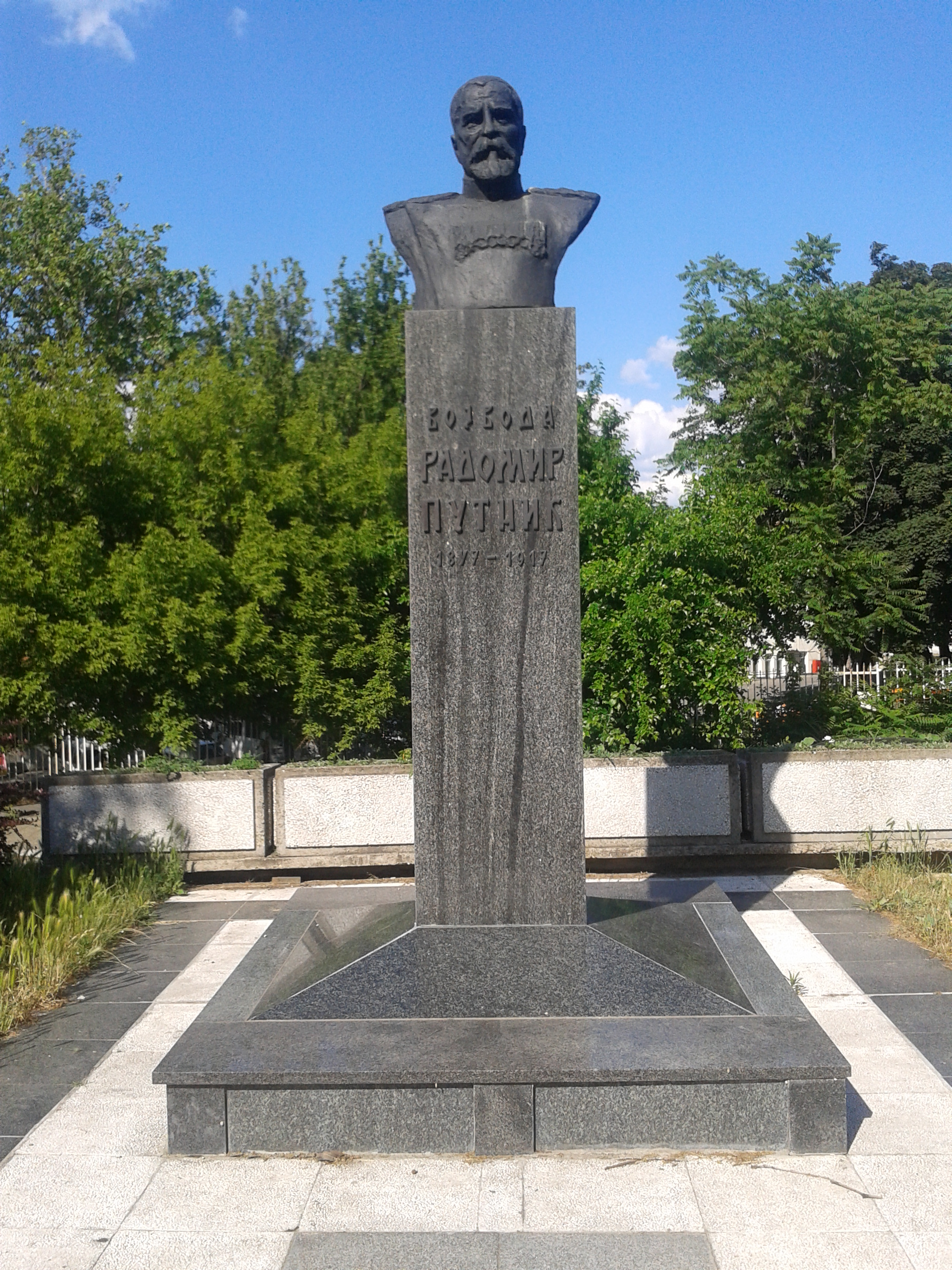 Monument to Vojvoda Radomir Putnik.